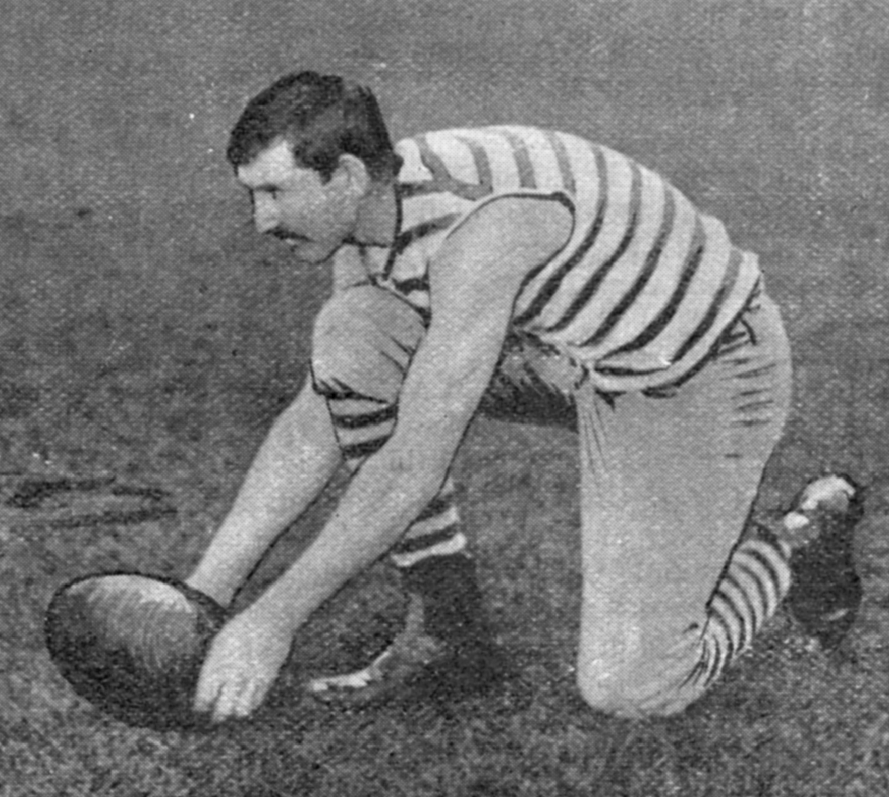 Print of South Melbourne footballer Dinny McKay (1867-1897)